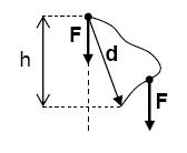 My illustration of work defined as dot product of force and displacement for the work of constant gravitational force mg